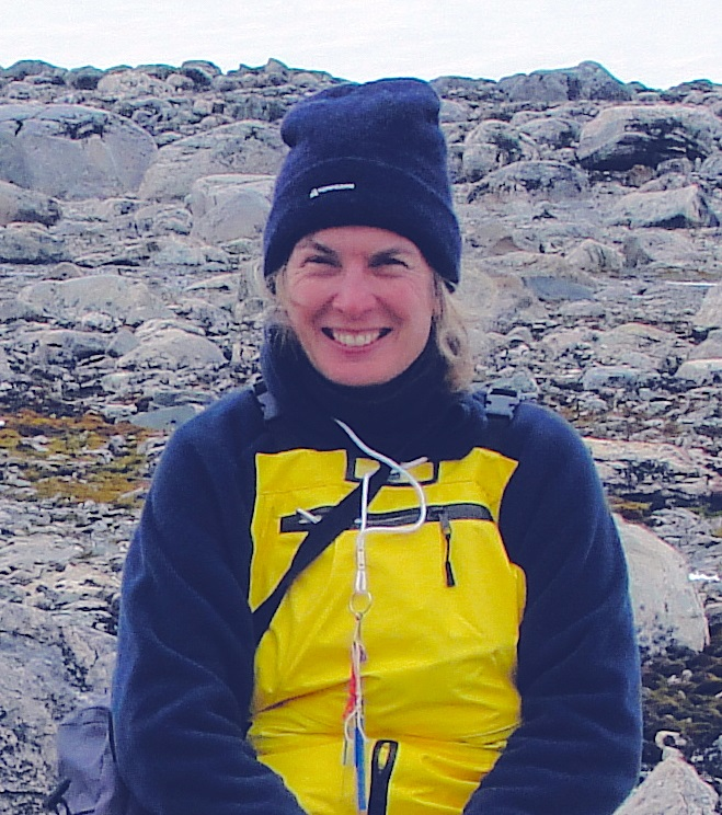 Sharon Robinson in a Moss bed at Casey Station Antarctica